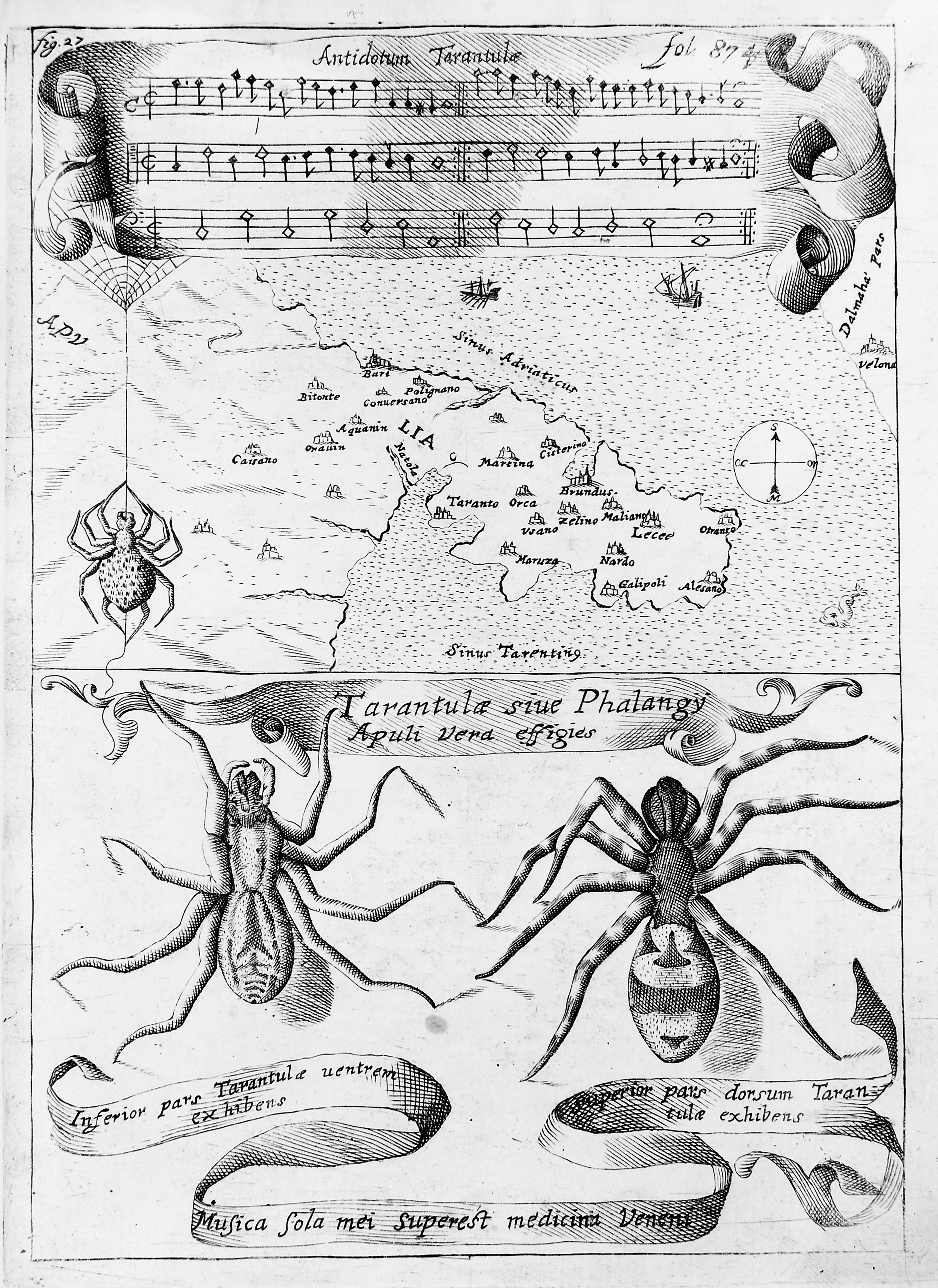 The tarantula. Rare Books Keywords: Athanasius Kircher